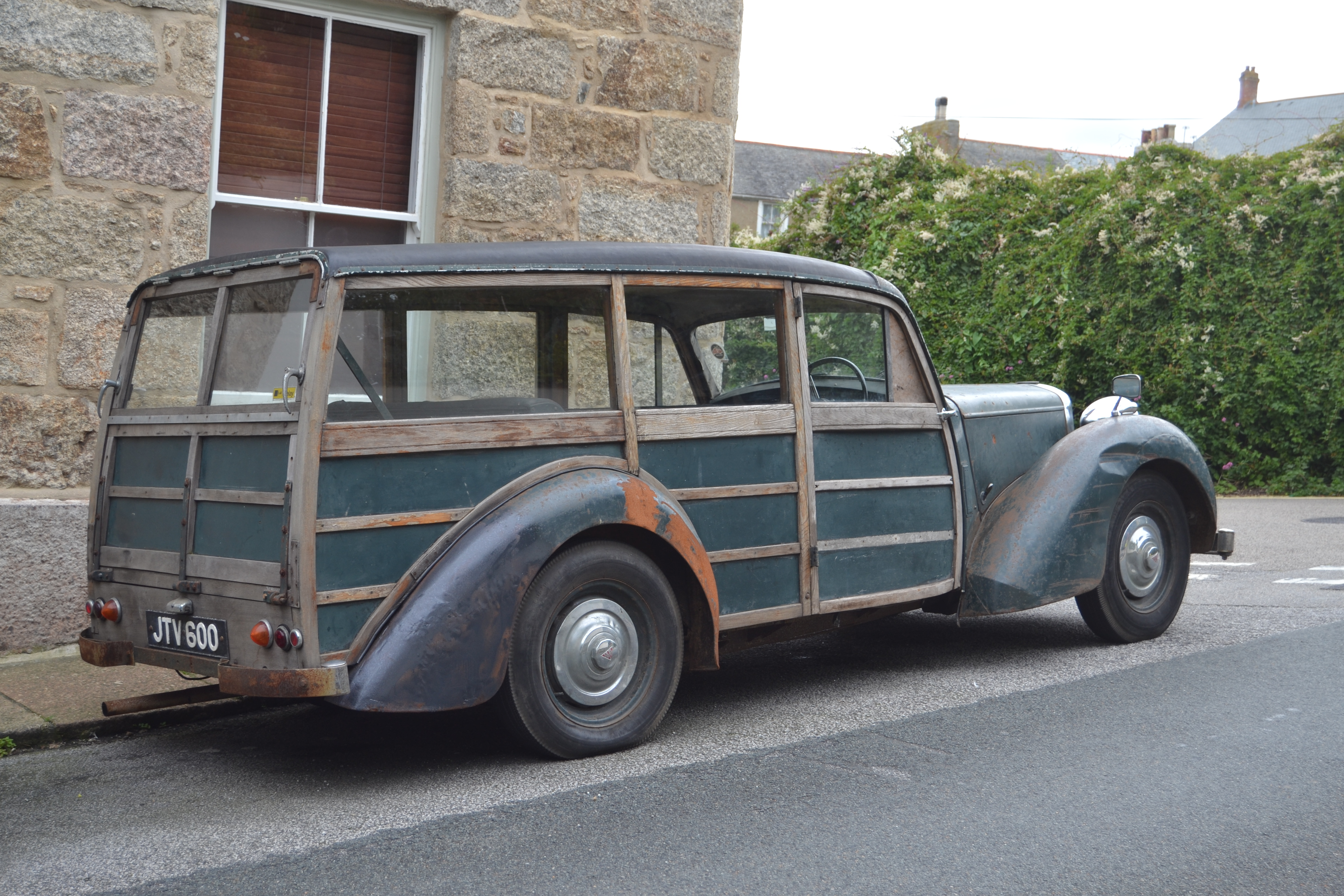 Alvis TA 14 Estate, Coachwork by Scotney